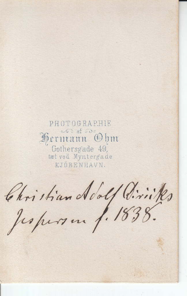 Reverse of a photograph of Christian Adolf Diriiks Jespersen (1838-?)